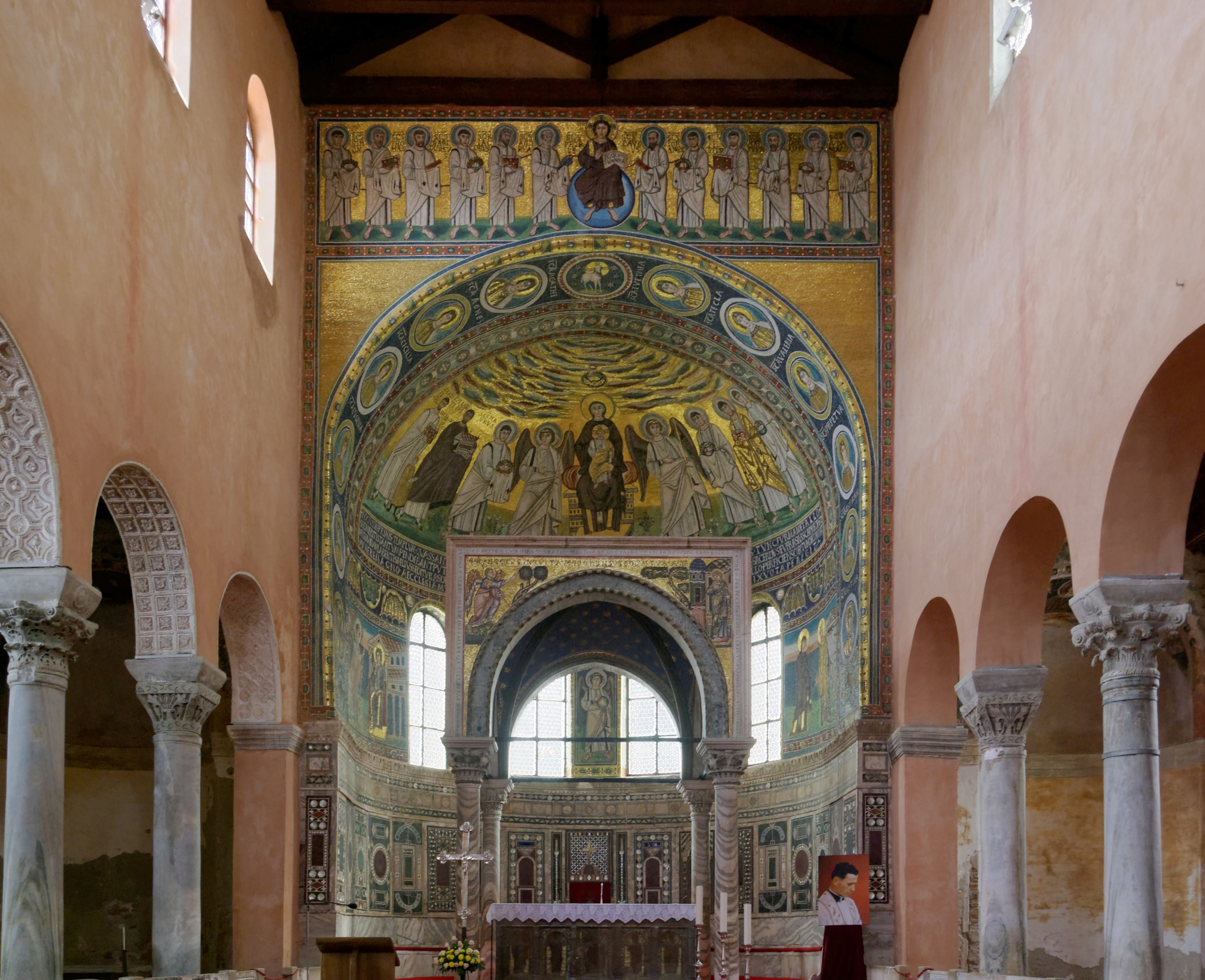 Croatia, Poreč, Euphrasian Basilica, apse